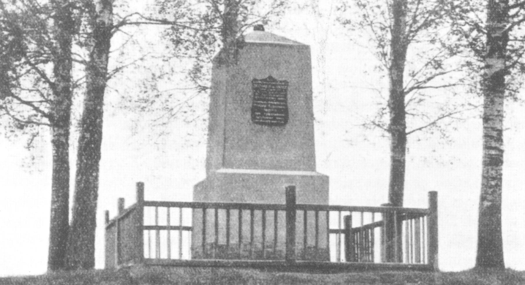 Plebania Wólka - in memory of Sweden general Anrep